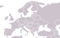 Distribution of Discoglossus montalentii, based on Nöllert/Nöllert: "Die Amphibien Europas"